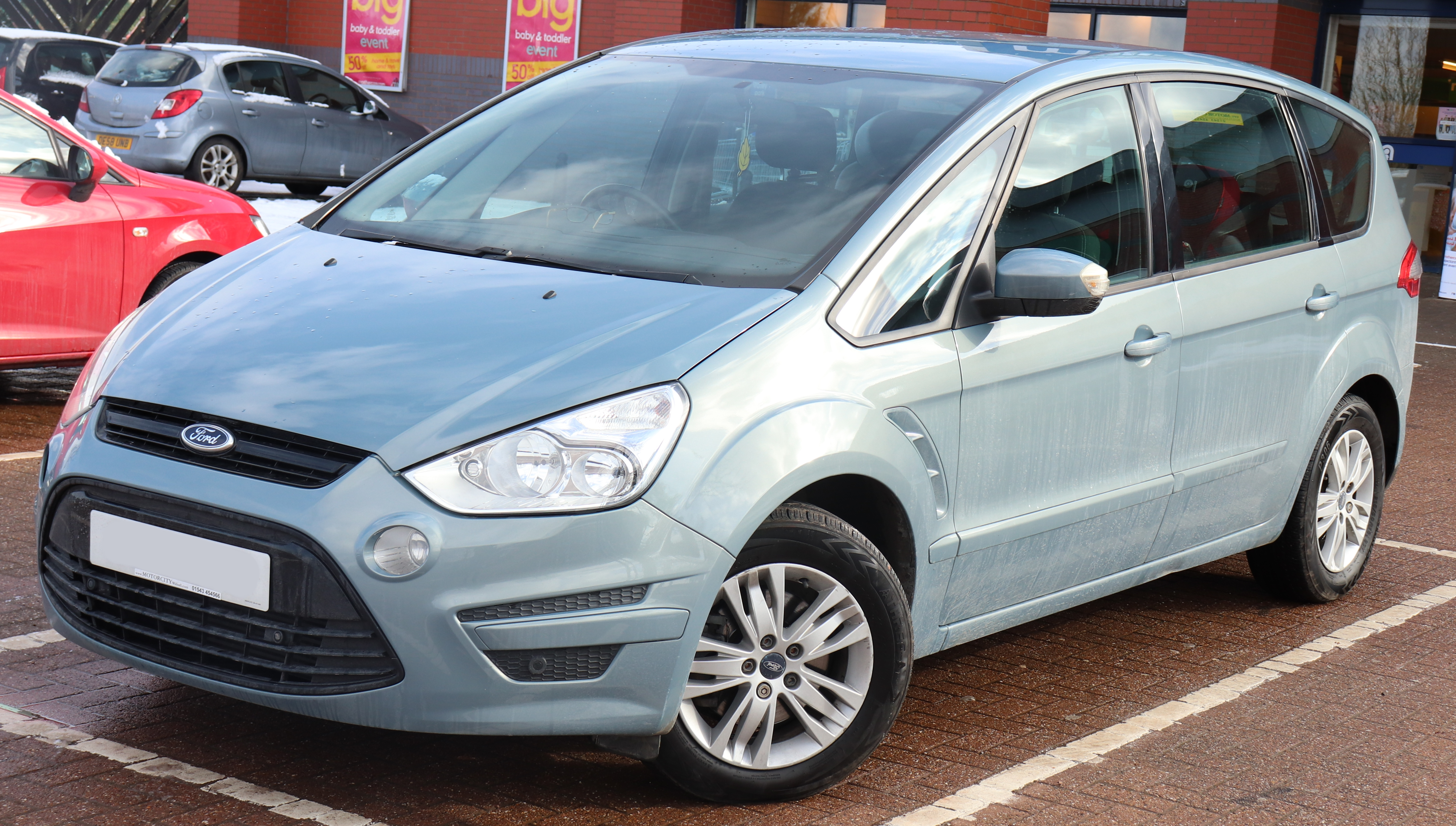 2010 Ford S-Max Zetec TDCi 2.0 Front Taken in Leamington Spa